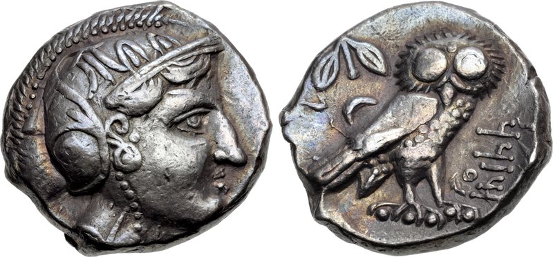 PERSIA, Alexandrine Empire. Mazakes. Satrap of Mesopotamia, 331-323-2 BC